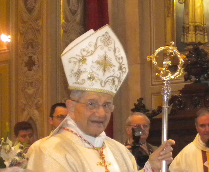 Cardinal Giovanni Coppa during the mass in Cavenago d'Adda, Italy.